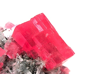 Quartz, Rhodochrosite Locality: Sweet Home Mine (Home Sweet Home Mine), Mount Bross, Alma District, Park County, Colorado, USA (Locality at ) Size: miniature, 5.1 x 5.1 x 2 cm Rhodochrosite with Quartz Well-balanced miniature features large and gemmy crystals to an inch, perched nicely on matrix. The large crystal has GLASSY luster with a rich cherry color. 5.1 x 5.1 x 2 cm